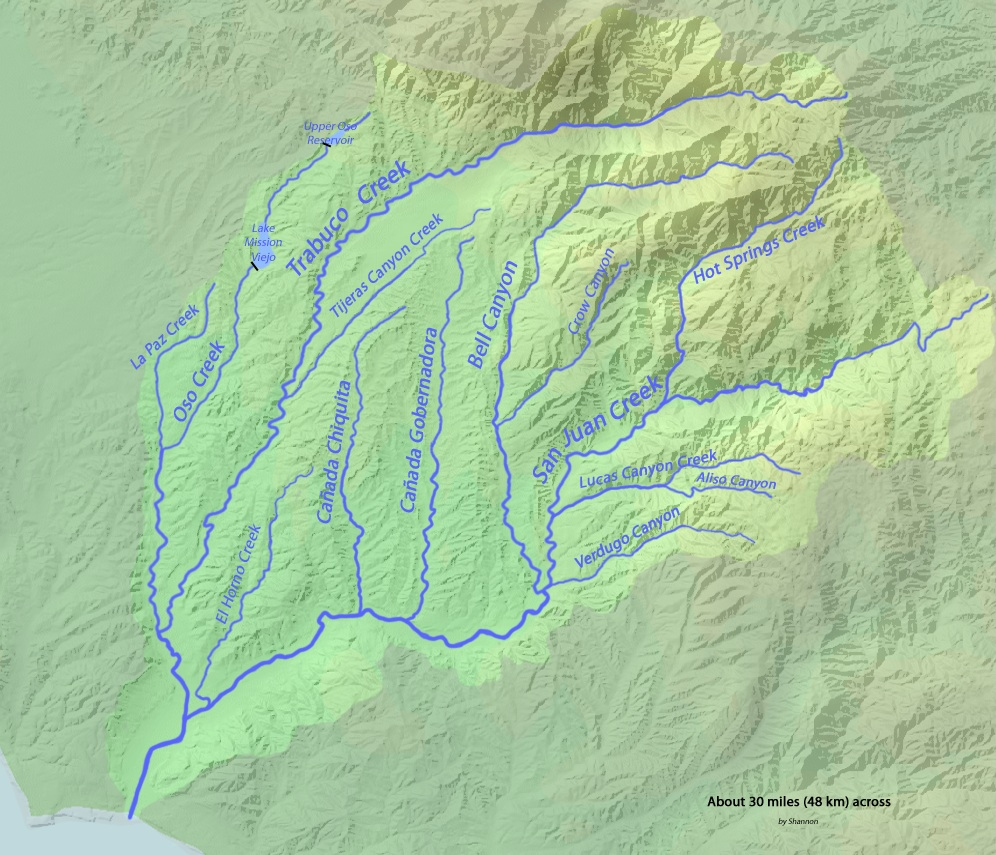 Map of the San Juan Creek watershed in Orange County, CA, which drains to the Pacific.